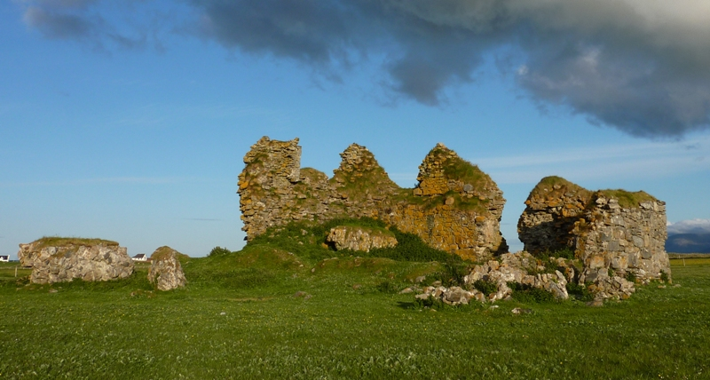 Borve Castle, Benbecula, Outer Hebrides, Scotland - from north west